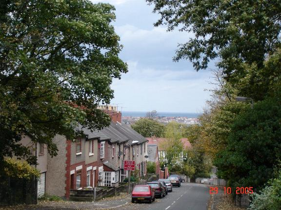 View from Glyn. Glyn - high above the town of Colwyn Bay